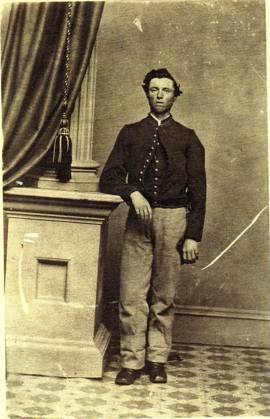 PVT Bissel Rice Pierce, member Batter E, 1st Illinois Light Artillery (Federal Army, US Civil War)